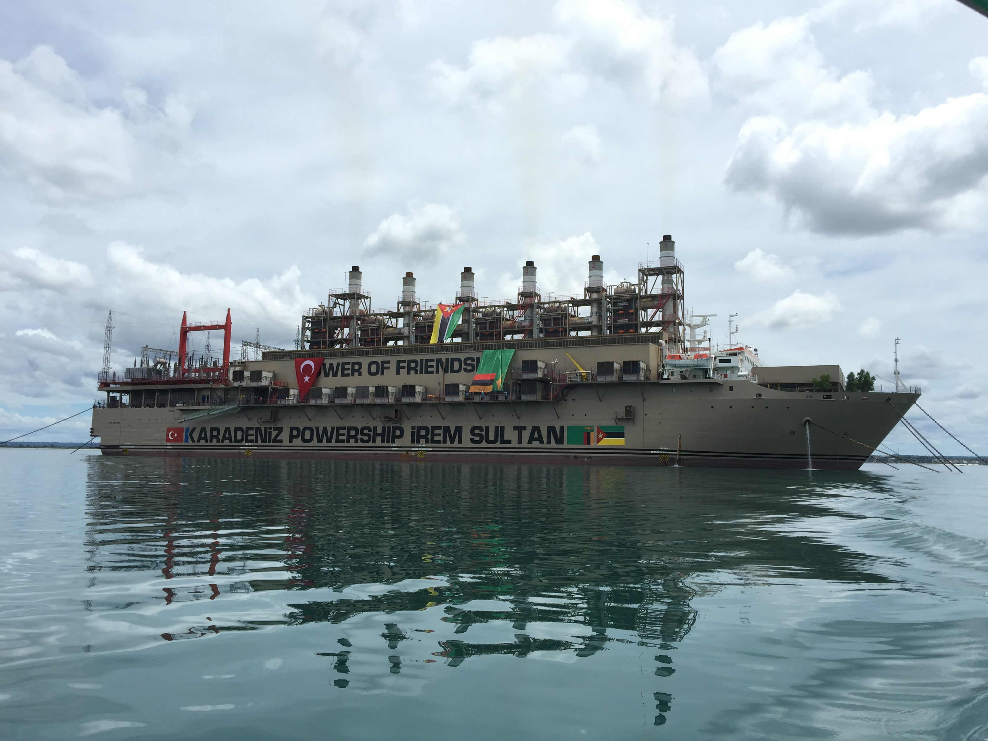 Karadeniz Powership İrem Sultan at Nacala, Mozambique